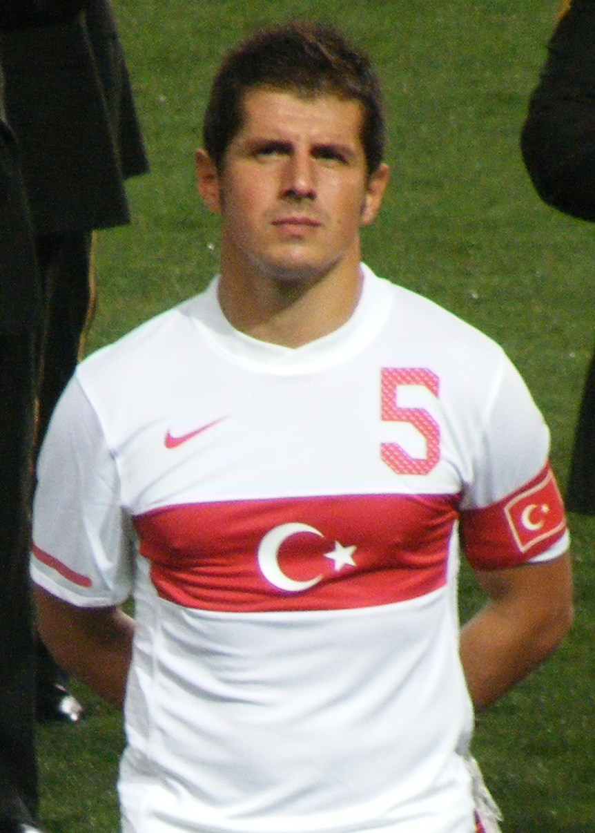 Emre Belozoglu in national jersey at match vs Romania in 11st Aug 2010, Wednesday at Fenerbahce Stadium, Istanbul